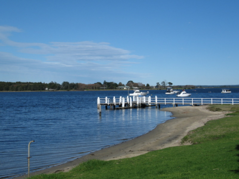 Andy Hutchinson